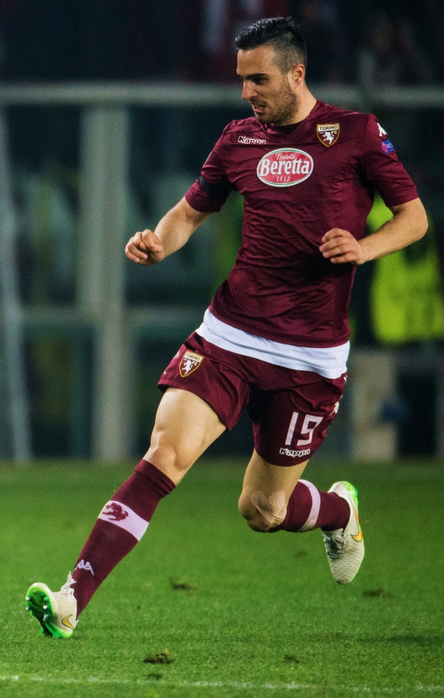 20.03.15. Италия, Турин, «Стадио Олимпико». Лига Европы УЕФА, 1/8 финала, «Торино» — «Зенит».Nikola Maksimović